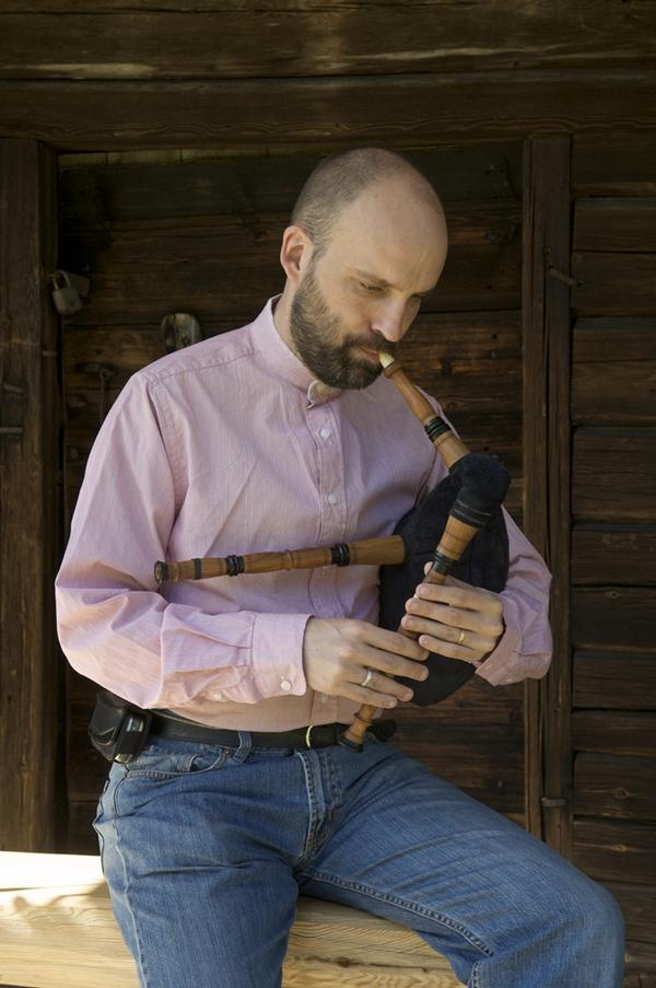 A photograph of Swedish musician Olle Gallmo playing the Swedish "sackpipa" bagpipes.